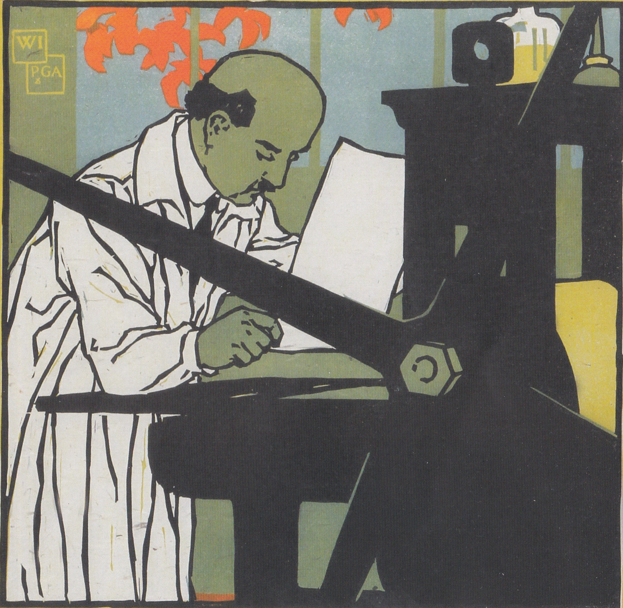 Colored linocut from year 1922 - self-portrait of Vojtěch Preissig (* 1873 - † 1944) standing at the printing machine.